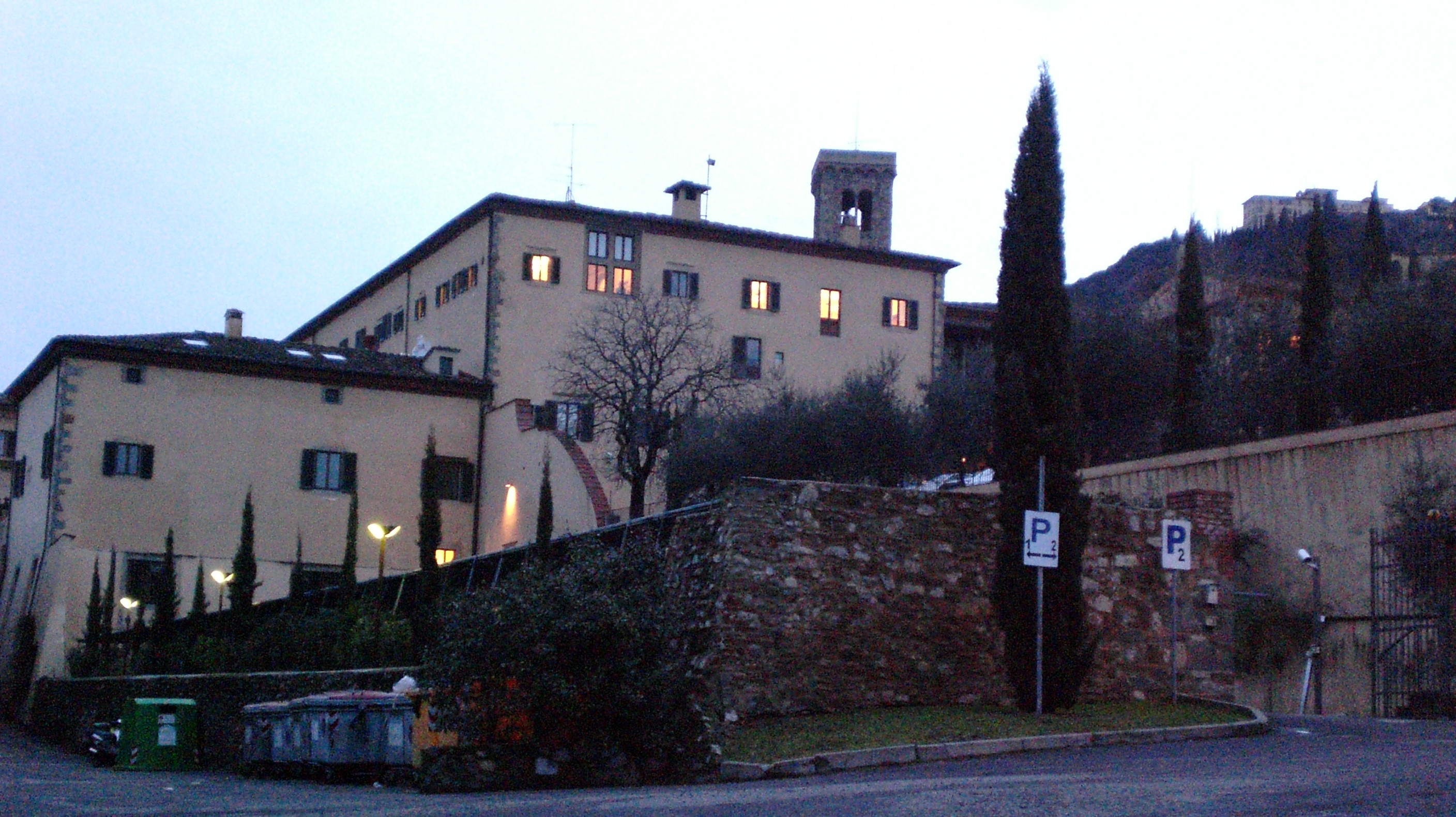 European University Institute